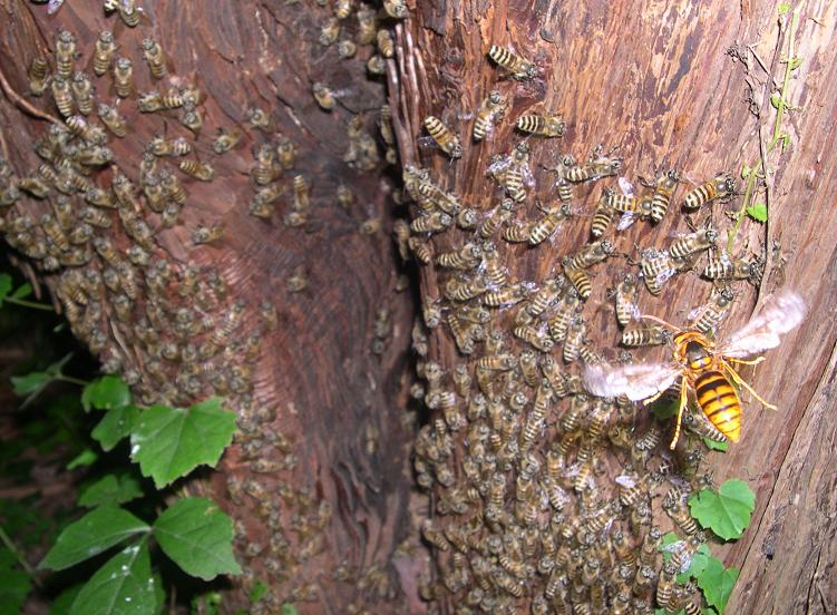 A hornet (Vespa simillima xanthoptera) flying around a bee nest in the tree trunk to capture a bee.